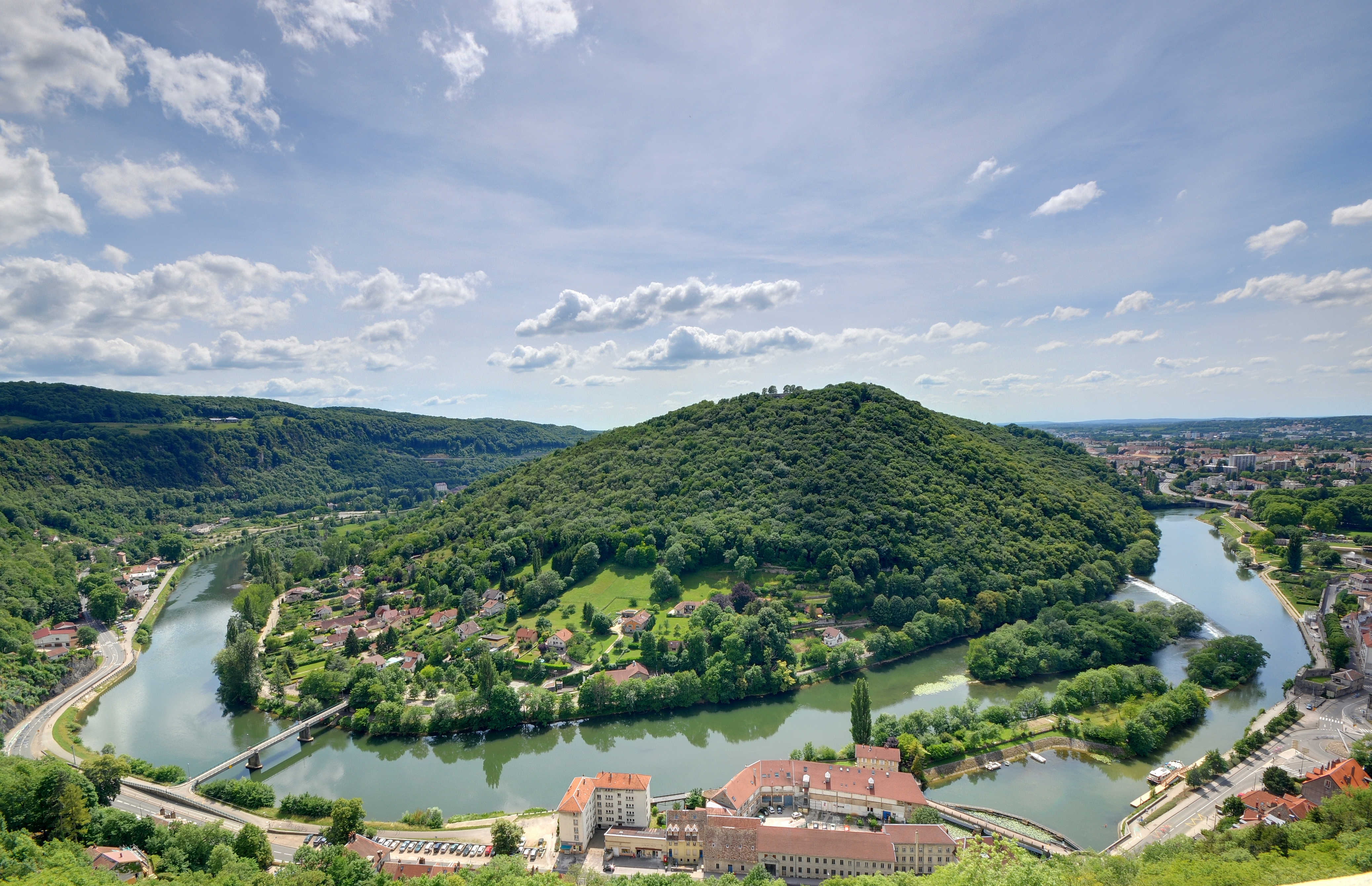 This photograph was taken with a Nikon D300 Citadelle de Besançon : Vue sur le Doubs (HDR).